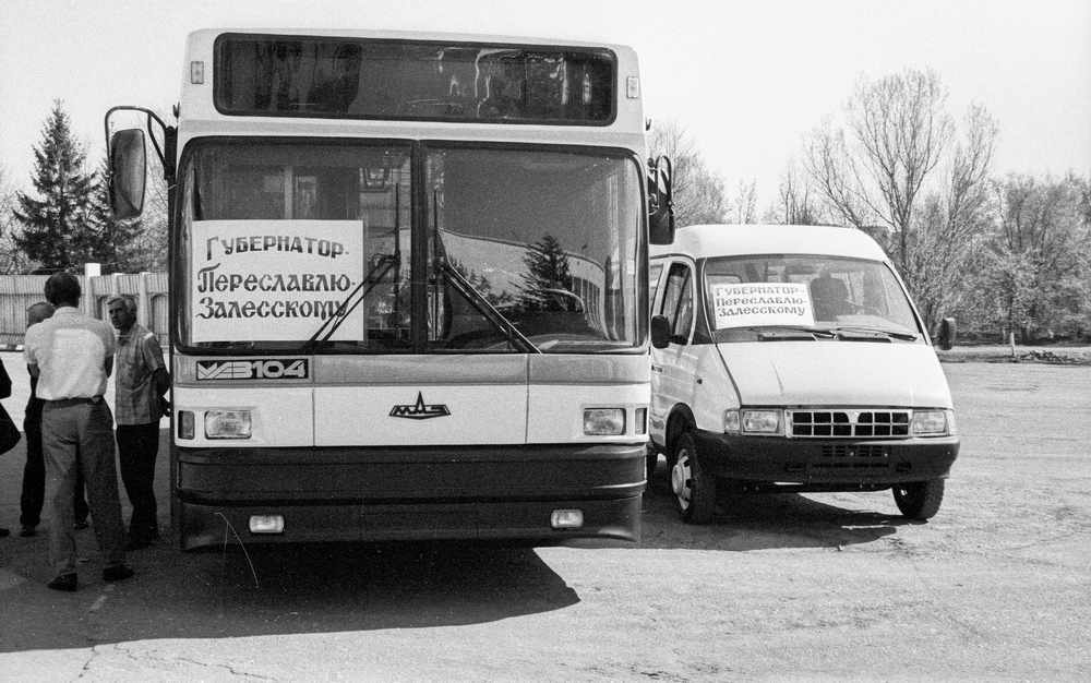 MAZ-104 bus and «GAZelle» minibus parked at Narodnaya square. Anatoliy Ivanovich Lisizyn, Governor of Yaroslavl Region, has presented them to Pereslavl. The poster on the windshield says: «Governor — to Pereslavl-Zalessky».